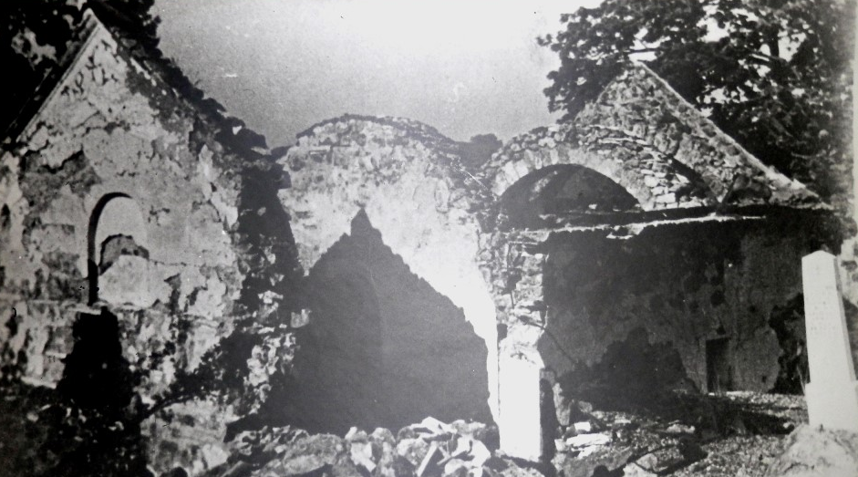 Old photo of a church in Kriva Reka in which the people were burned aliveč